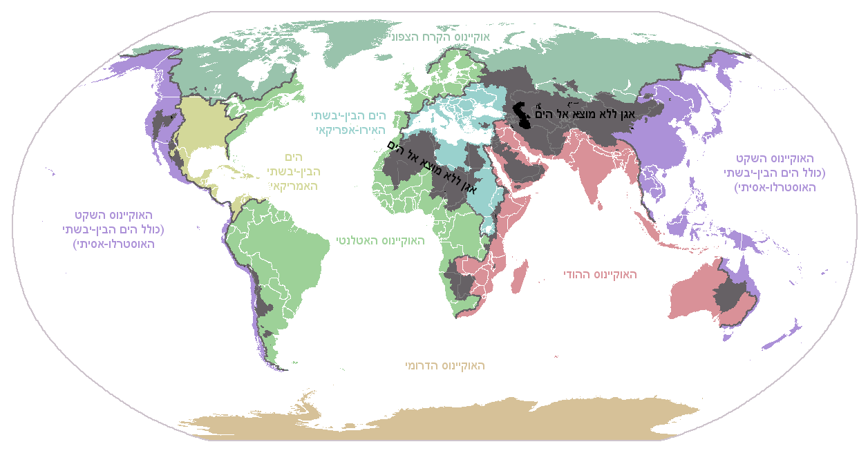 Ocean drainage